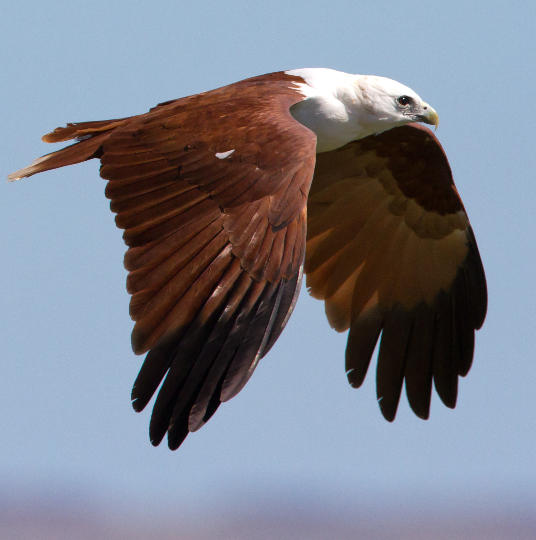 A Brahminy Kite flying at Withnell Bay, Karratha, Pilbara, Western Australia, Australia.